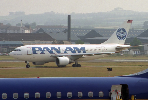 PanAm Airbus A310-222 Clipper Miles Standish